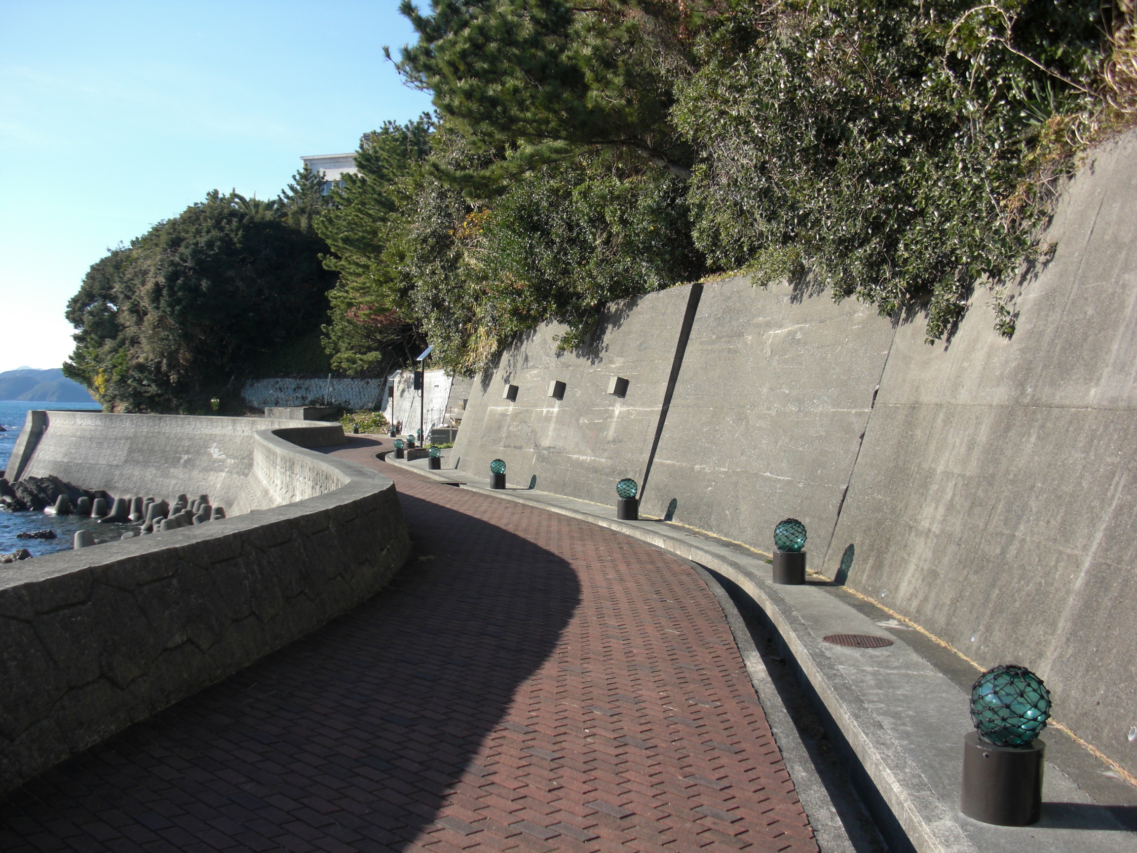 This is a seaside sidewalk in Hamajima-cho Hamajima, Shima, Mie, Japan.